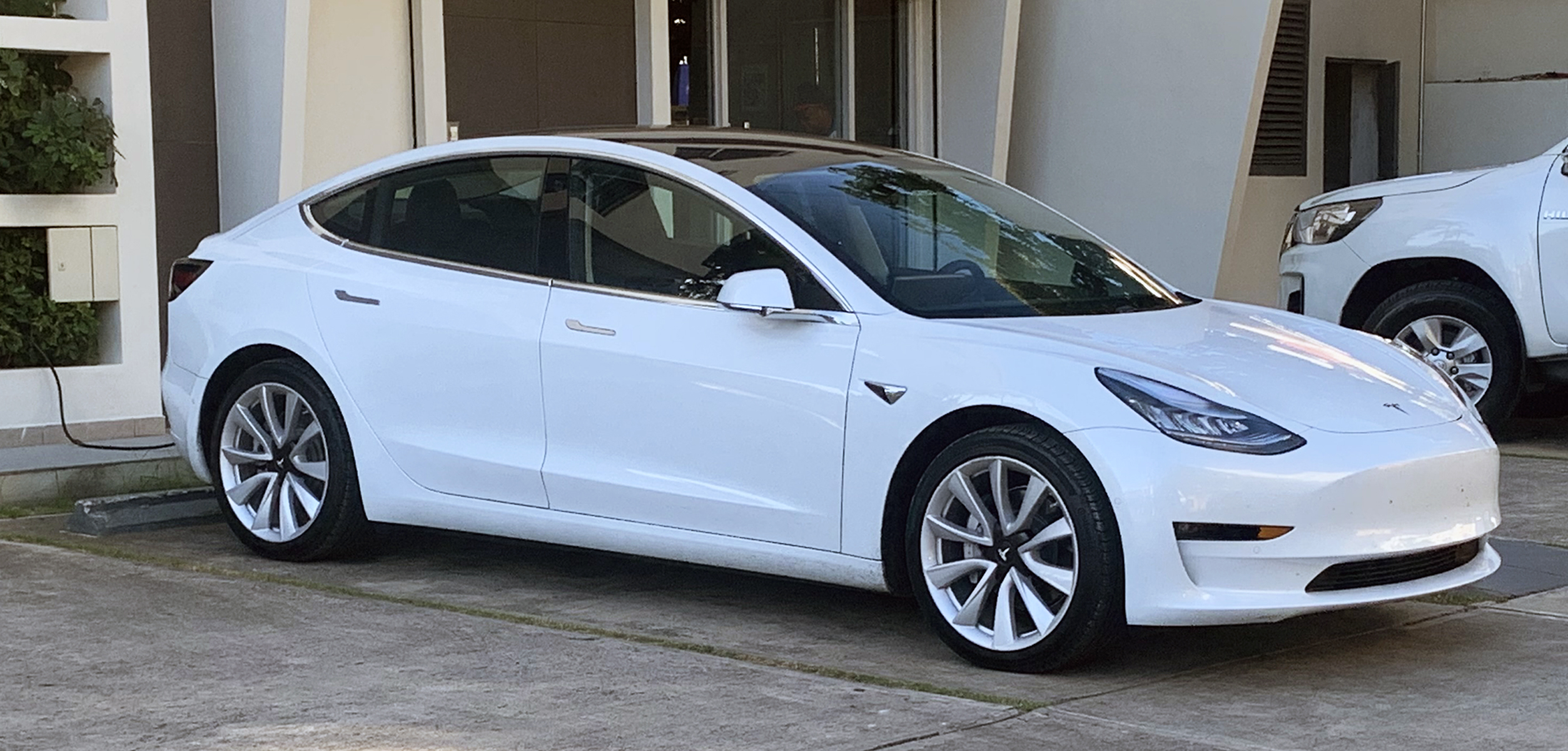 Tesla Model 3 in Santo Domingo, Dominican Republic